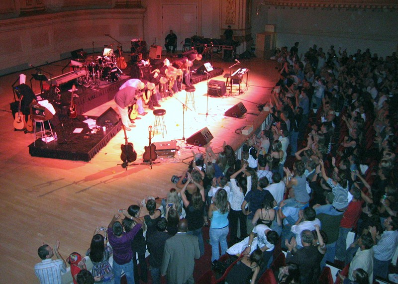 Elán concert in New York, 2007